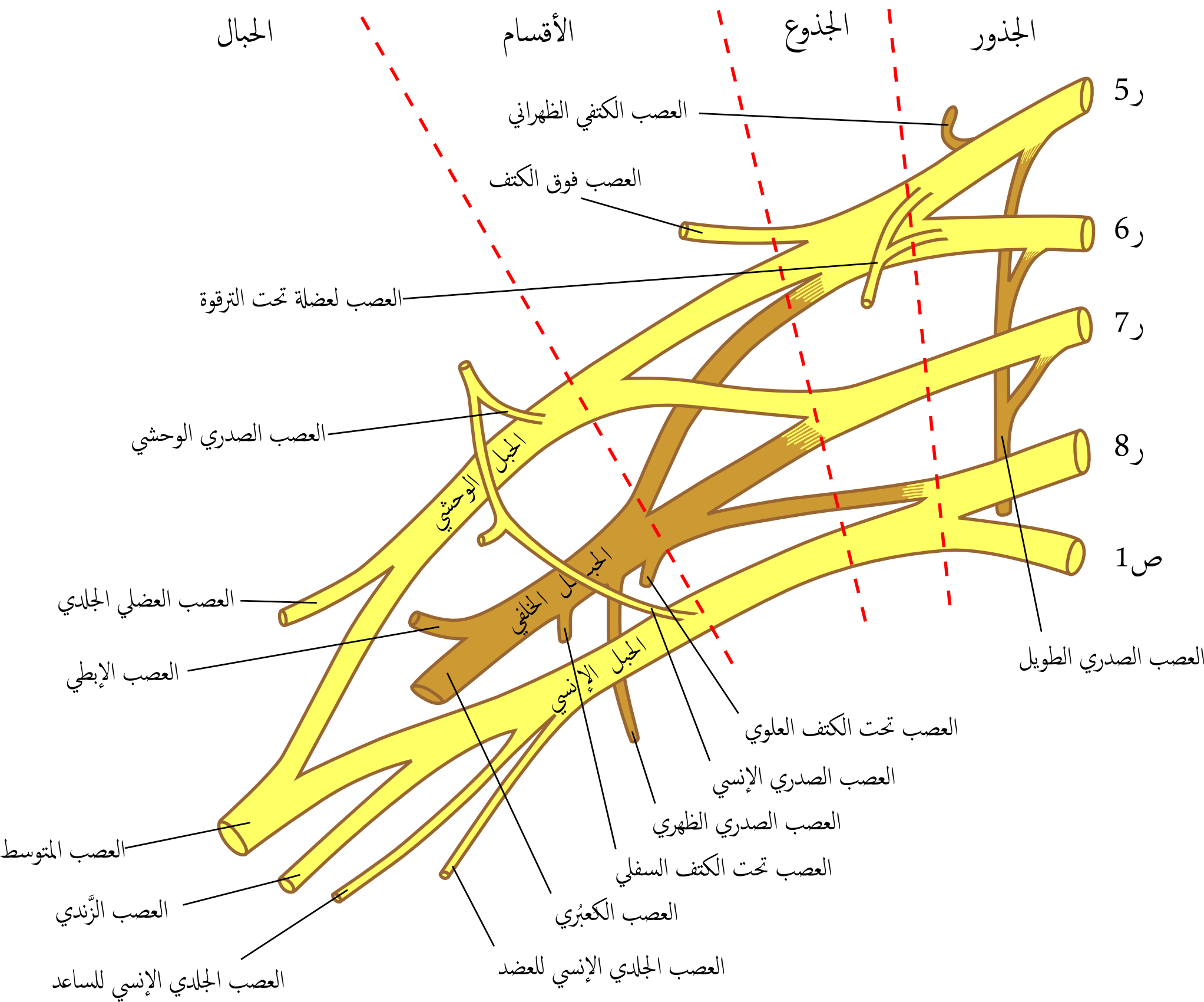 Anterior view of right brachial plexus. Illustration. Modified by Mattopaedia on 02-Jan-2006 from the 1918 Edition of Gray's Anatomy. Original unmodified image sourced from Migrated to vector (.svg) image on 11-November-2009 by Captain-n00dle. Simplified image on 30-November-2009 by MissMJ.